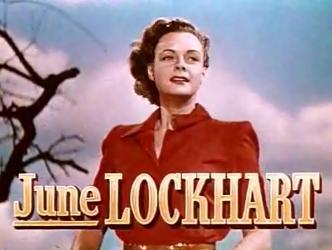 Cropped screenshot of June Lockhart from the trailer for the film Son of Lassie (1945).